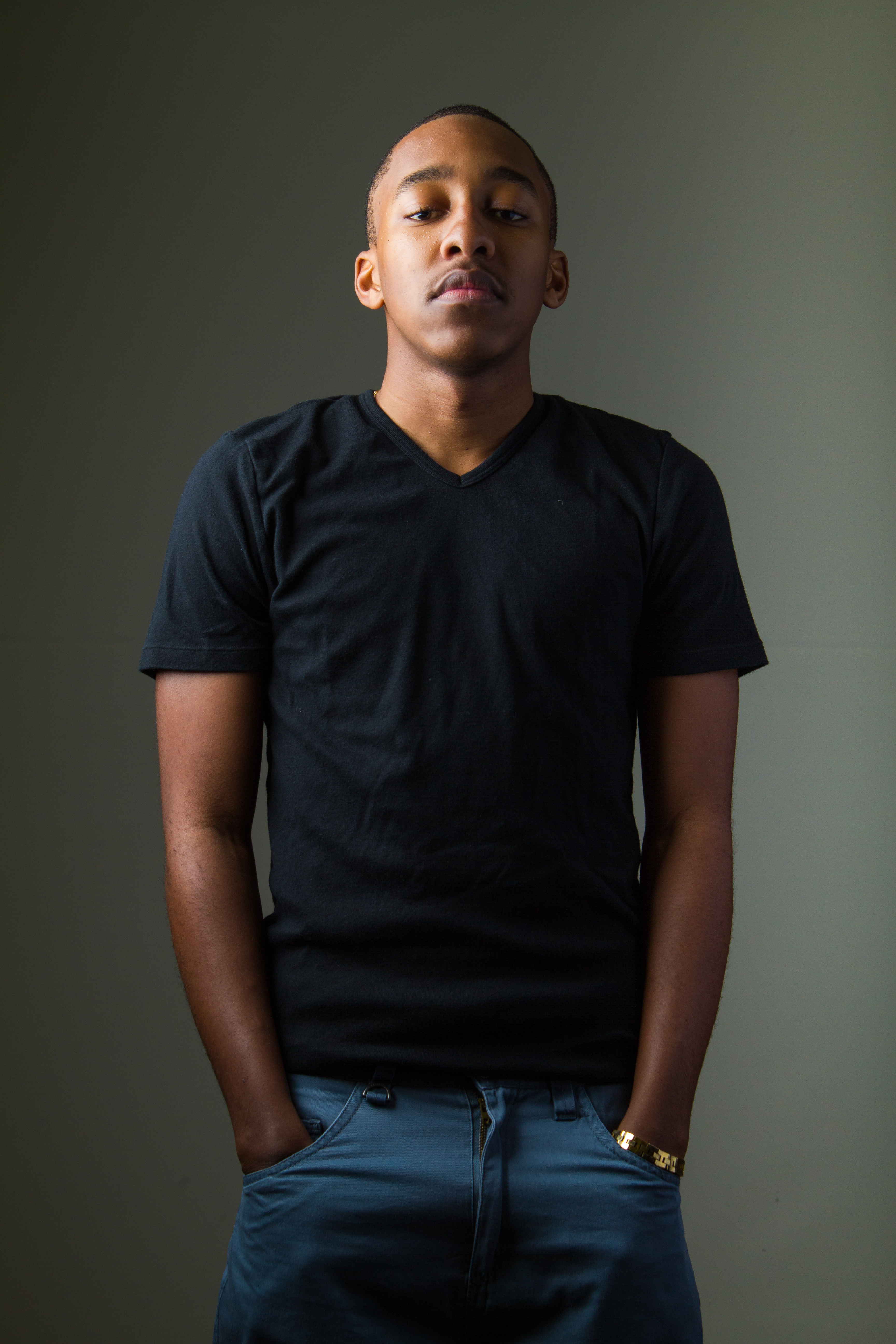 Tendaness in 2013. Norman OK.